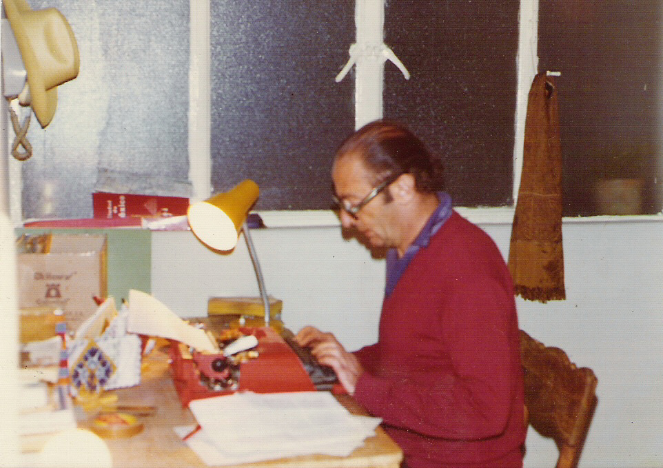 Title: Humberto Costantini, writing Author: Ute D. Mayer